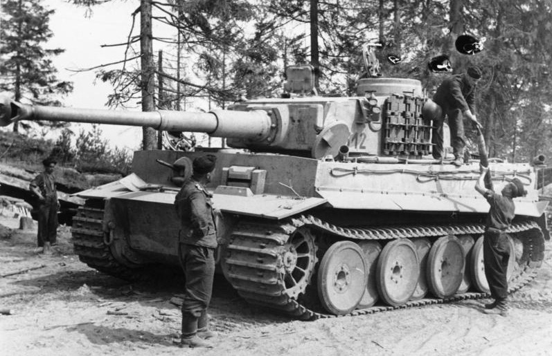 Information added by Wikimedia users.Schwere Panzer-Abteilung 502 (only unit ever near Ladoga)[1]